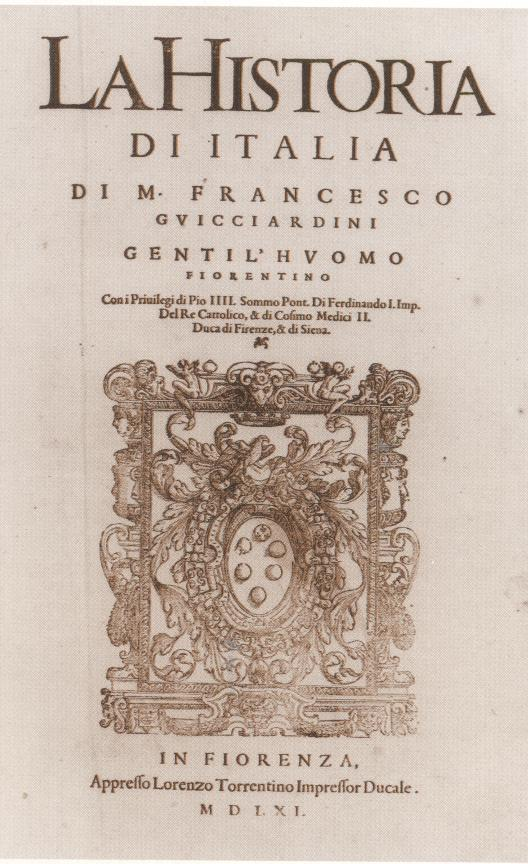 Titlepage of Francesco Guicciardini, 'La Historia di Italia di M. Francesco Guicciardini gentil' huomo Fiorentino.' (Liber XVI) Con i Privilegi di Pio IIII. Sommo Pont. Di Ferdinando I. Imp. Del Re Cattolico, et di Cosimo Medici II. Duca di Firenze, et di Siena. In Fiorenza, Appresso Lorenzo Torrentino Impressor Ducale, MDLXI.